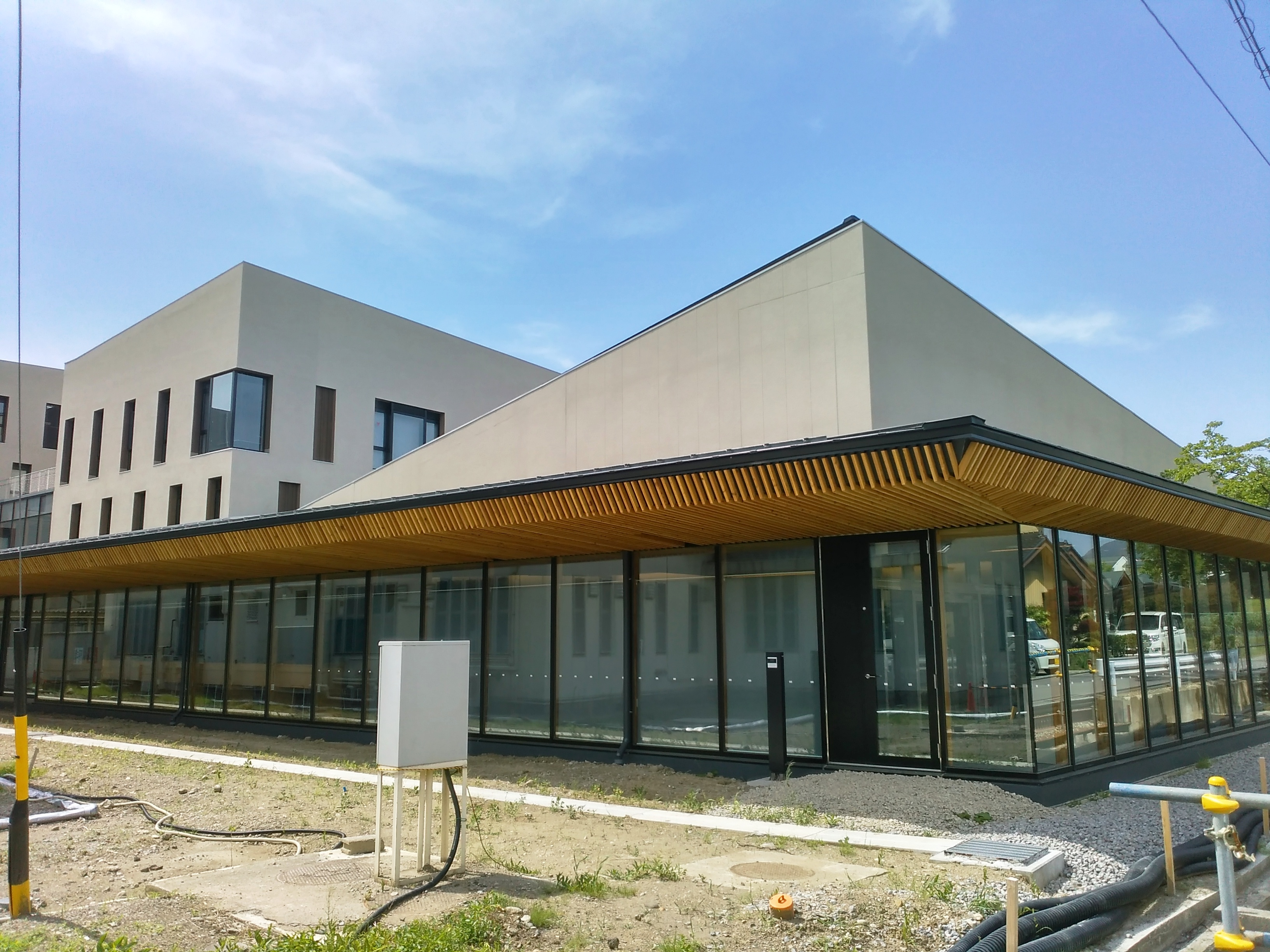 Cafeteria and arena (gym) of the University of Nagano in Nagano, Nagano, Japan. The photo was taken outside the campus.